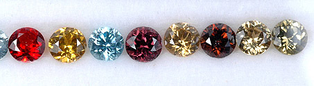 Zircon Locality: Vietnam Size: thumbnail, Approx 5.5 mm each; 13.5 carats Zircon (multi-stone set) Zircons are one of the most diverse gems when it comes to color. Vietnam has only recently made a significant impact on the world gem trade producing some very fine Rubies along with some very fine Zircons. Typically one associates Zircon gems with the color blue, but Zircon occurs in virtually every color of the rainbow. This set features 14 individual eye clean gems of varying hues, all from Vietnam. The colors range from blue to yellow to orange to red, with shades of pink and copper in other stones. No two stones are exactly the same color, and assembling matching sets of stones like this is not an easy task, especially since all the stones have the same style of round cut, so they match perfectly.